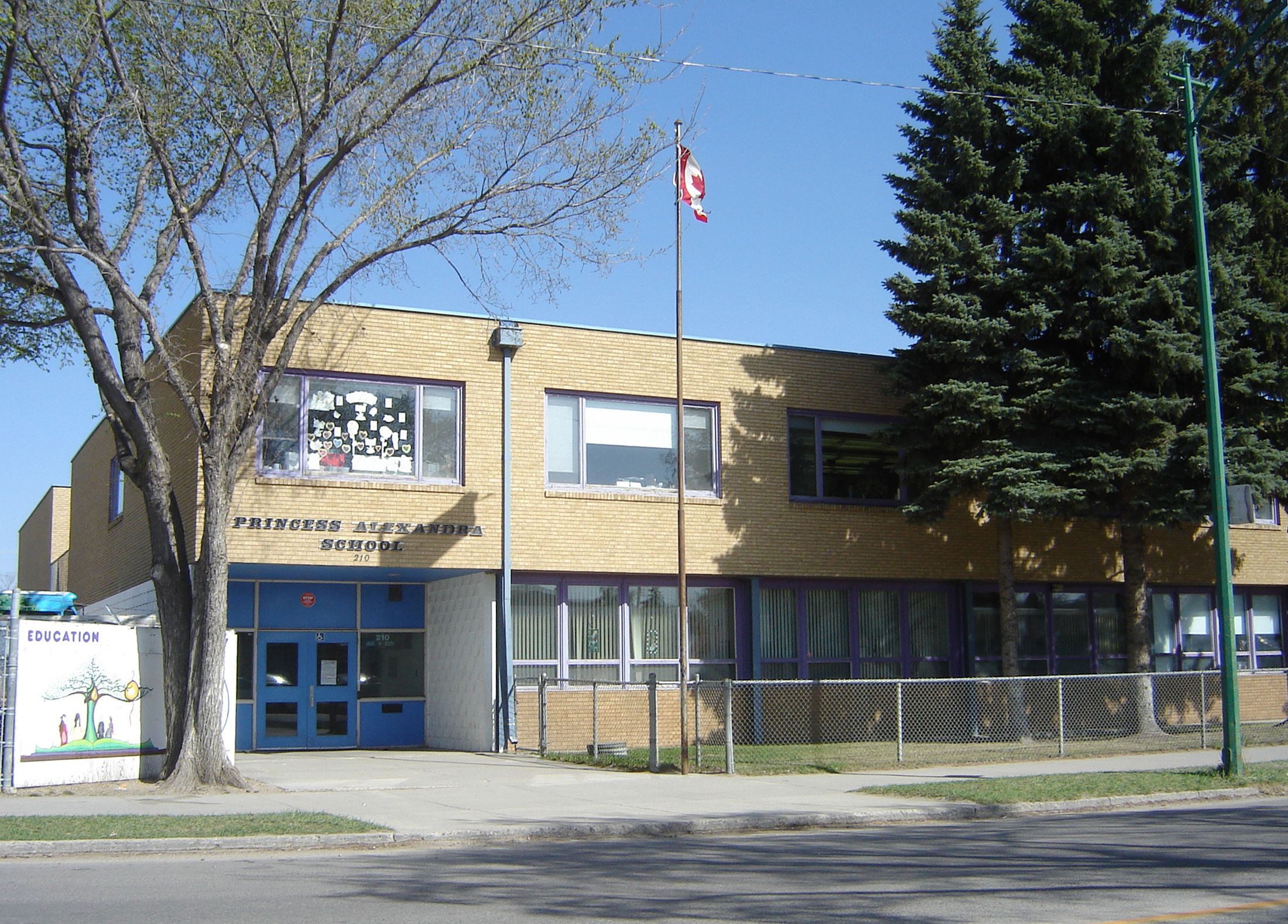 Princess Alexandra School Riversdale, Saskatoon